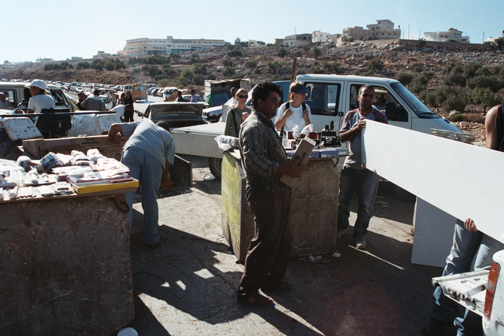 Palestinians unloading construction material from one truck to another in order to cross an Israeli unmanned roadblock between Palestinian cities in occupied West Bank.